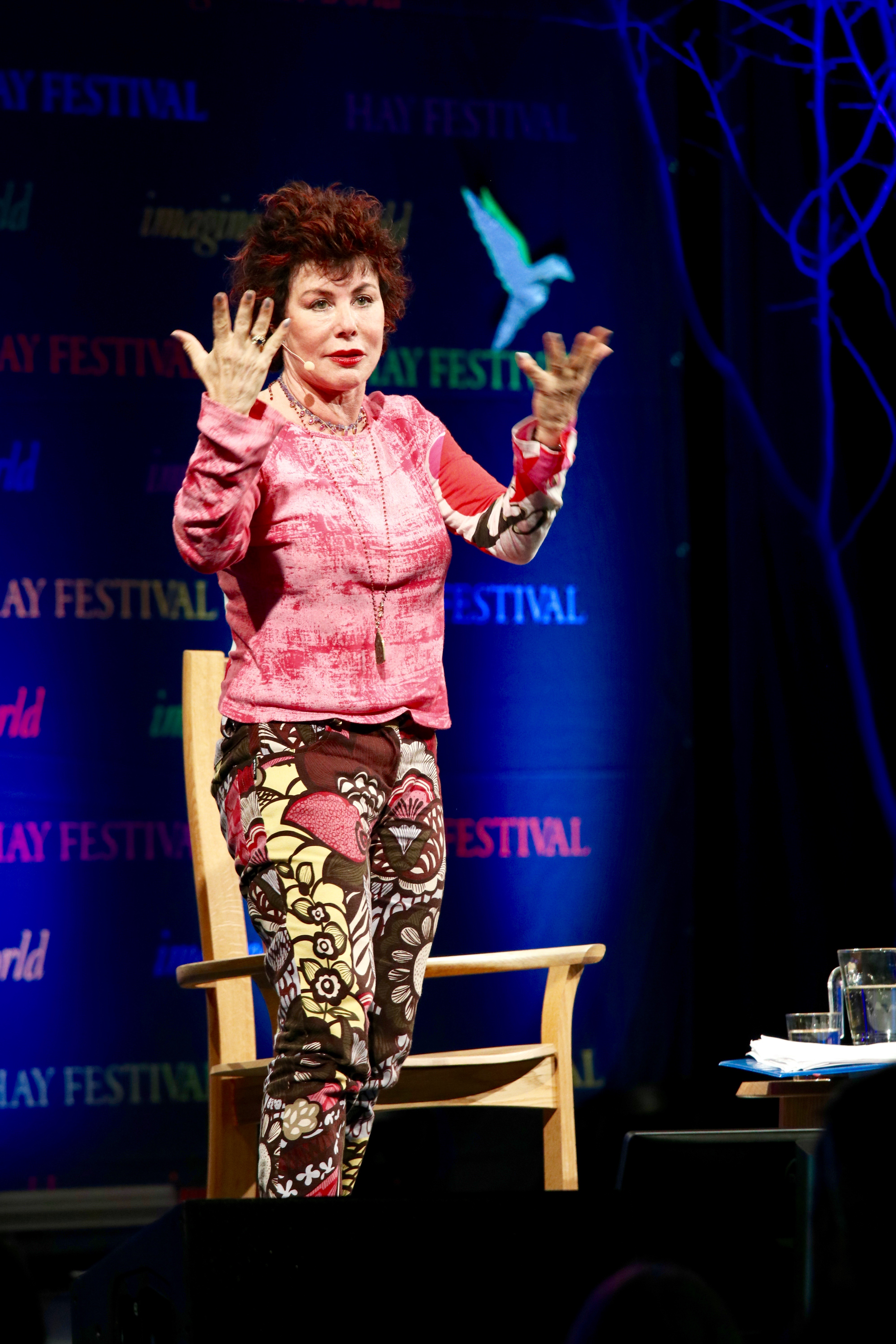 Hay Festival 2016 - Ruby Wax